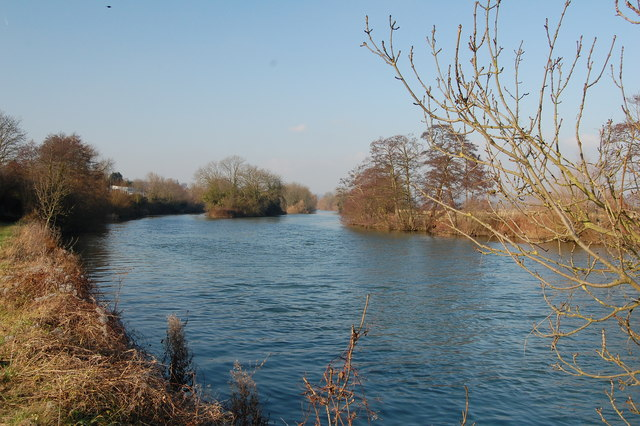 Looking upstream towards Appletree Eyot in the River Thames. The bank on the left is in the part of Tilehurst that lies within the town of Reading in the English county of Berkshire. The bank on the right is in the Oxfordshire parish of Mapledurham. Taken 29/12/08 around midday.